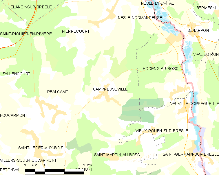 Map of French municipality Campneuseville